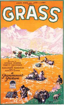 Promotional poster from the 1925 film Grass.